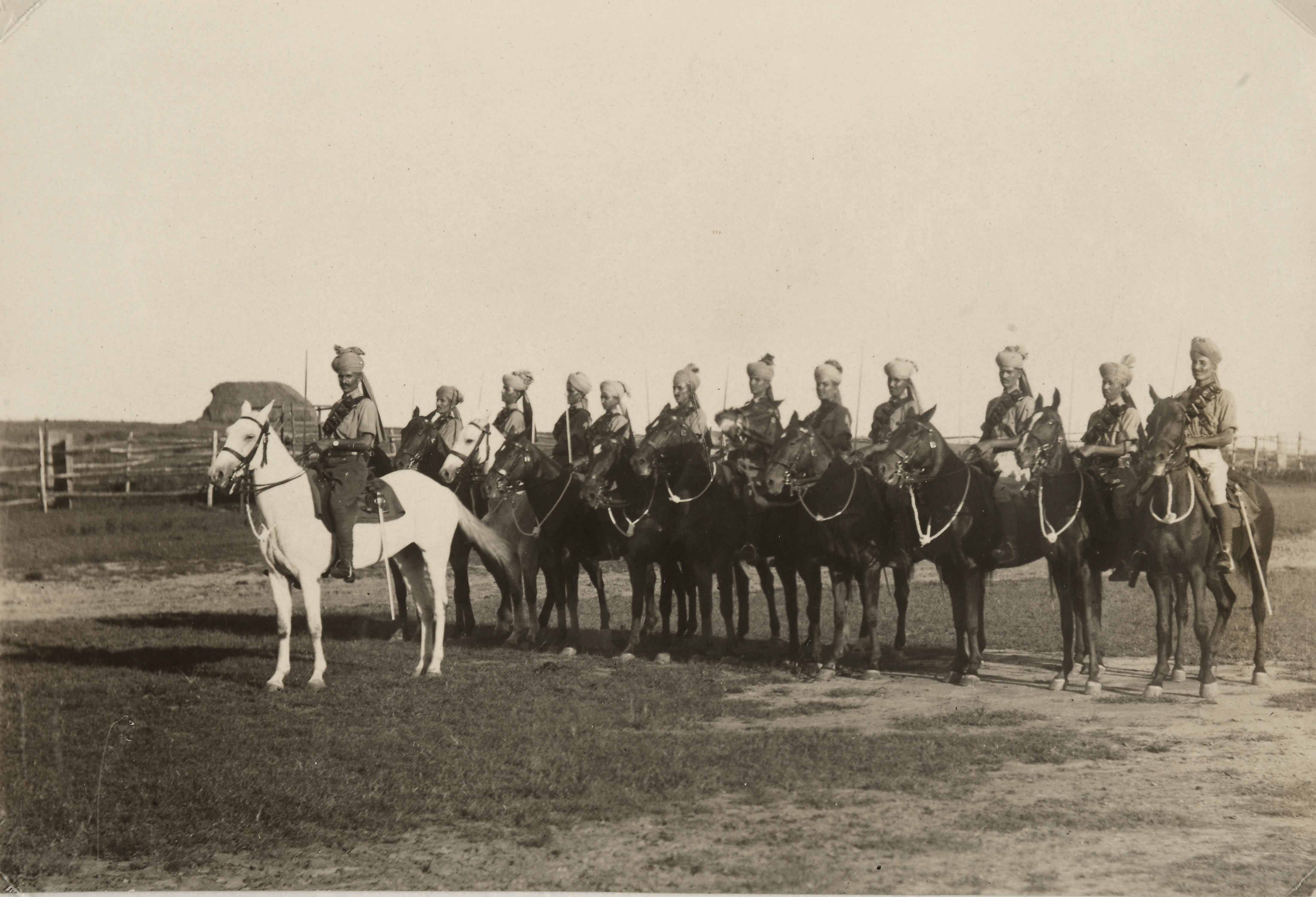 Description: A ride of Pathun recruits just prior to being passed into the ranks Location: North west frontier of India Date: 1933-1935 Our catalogue reference: Part of CN 4/8 This image is part of the War Office photographic collection held at The National Archives. Feel free to share it within the spirit of the Commons Please use the comments section below the pictures to share any information you have about the people, places or events shown. For high quality reproductions of any item from our collection please contact our image library